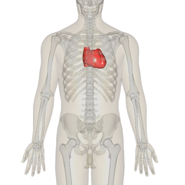 Stationary view of the heart and the skeleton of the human body